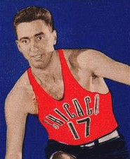 Professional basketball player Chuck Gilmur